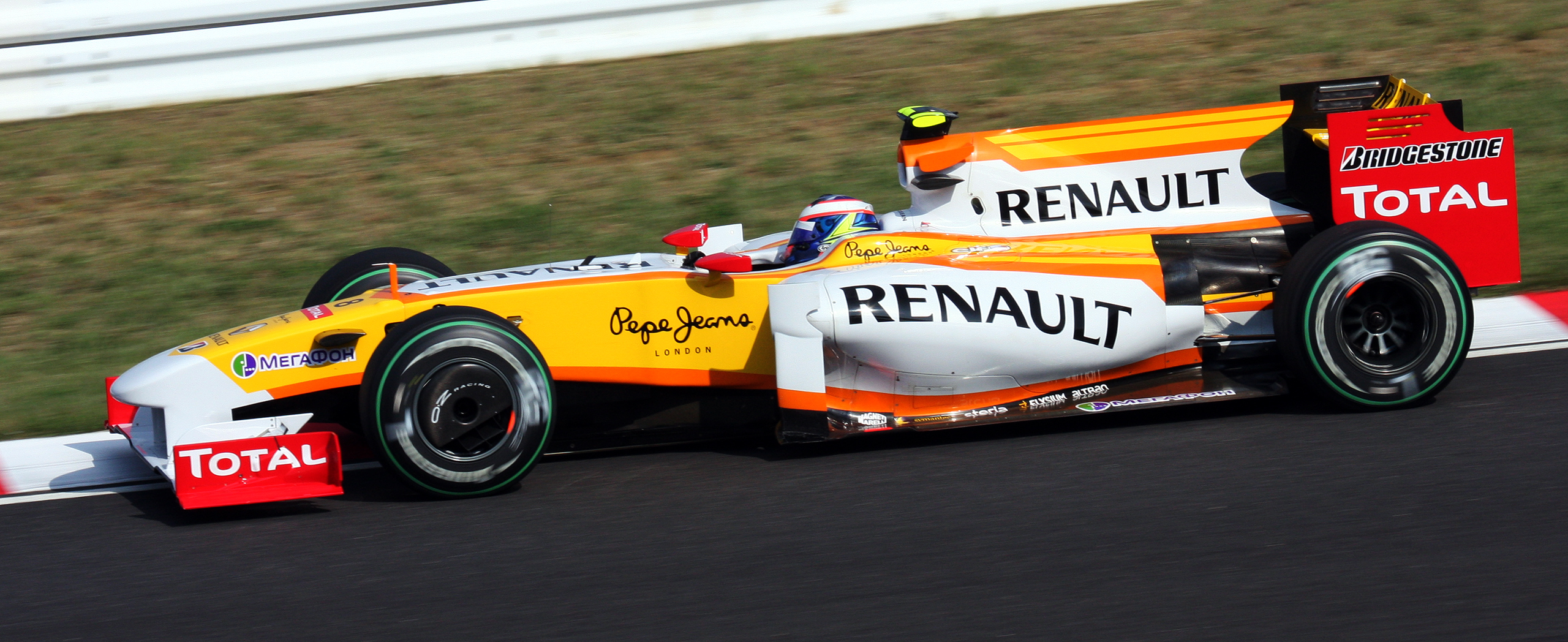 Formula One 2009 Rd.15 Japanese GP: Romain Grosjean (Renault) running in Saturday 1st Qualify session.